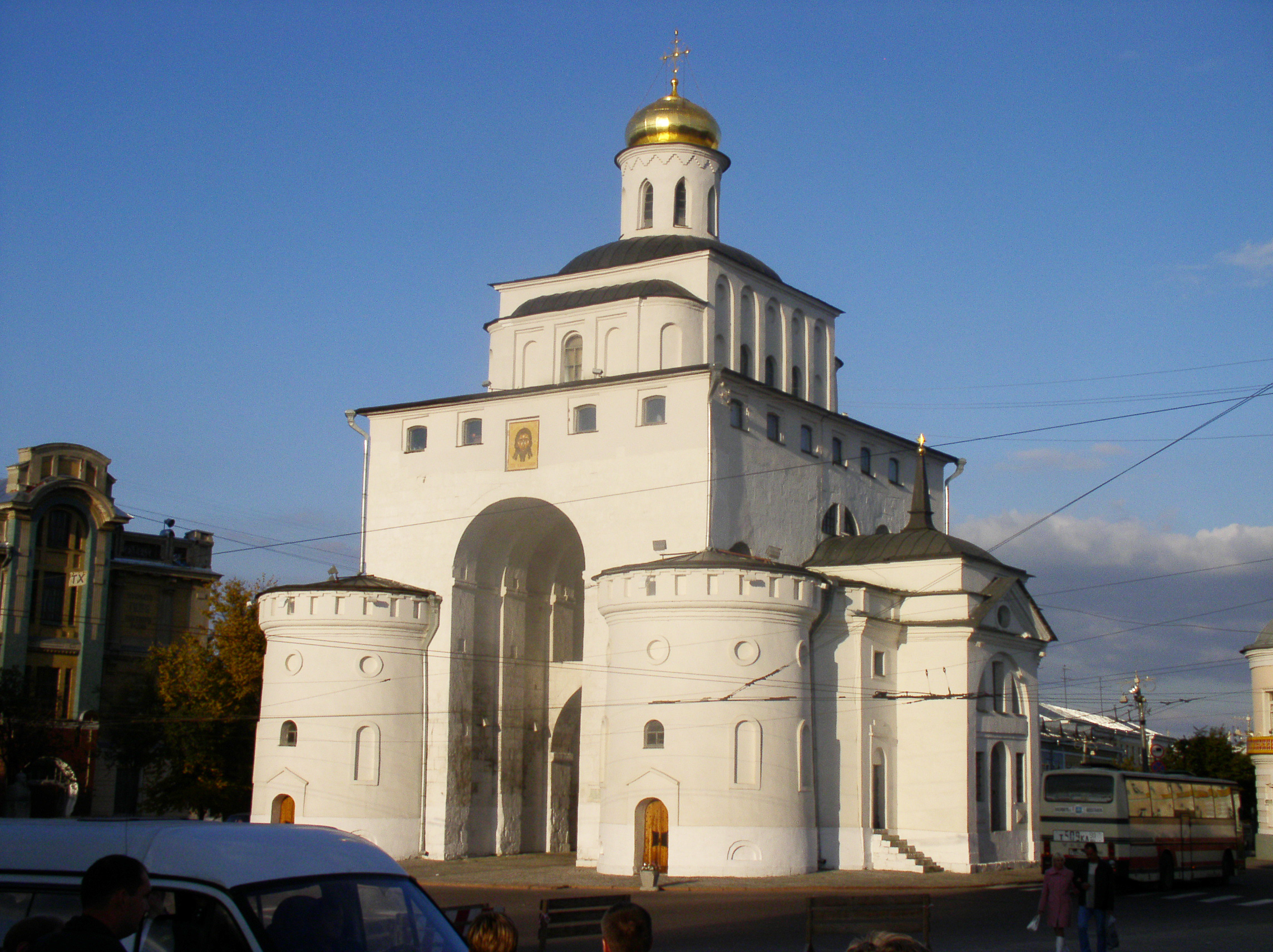 Golden Gate. Vladimir, Russia.